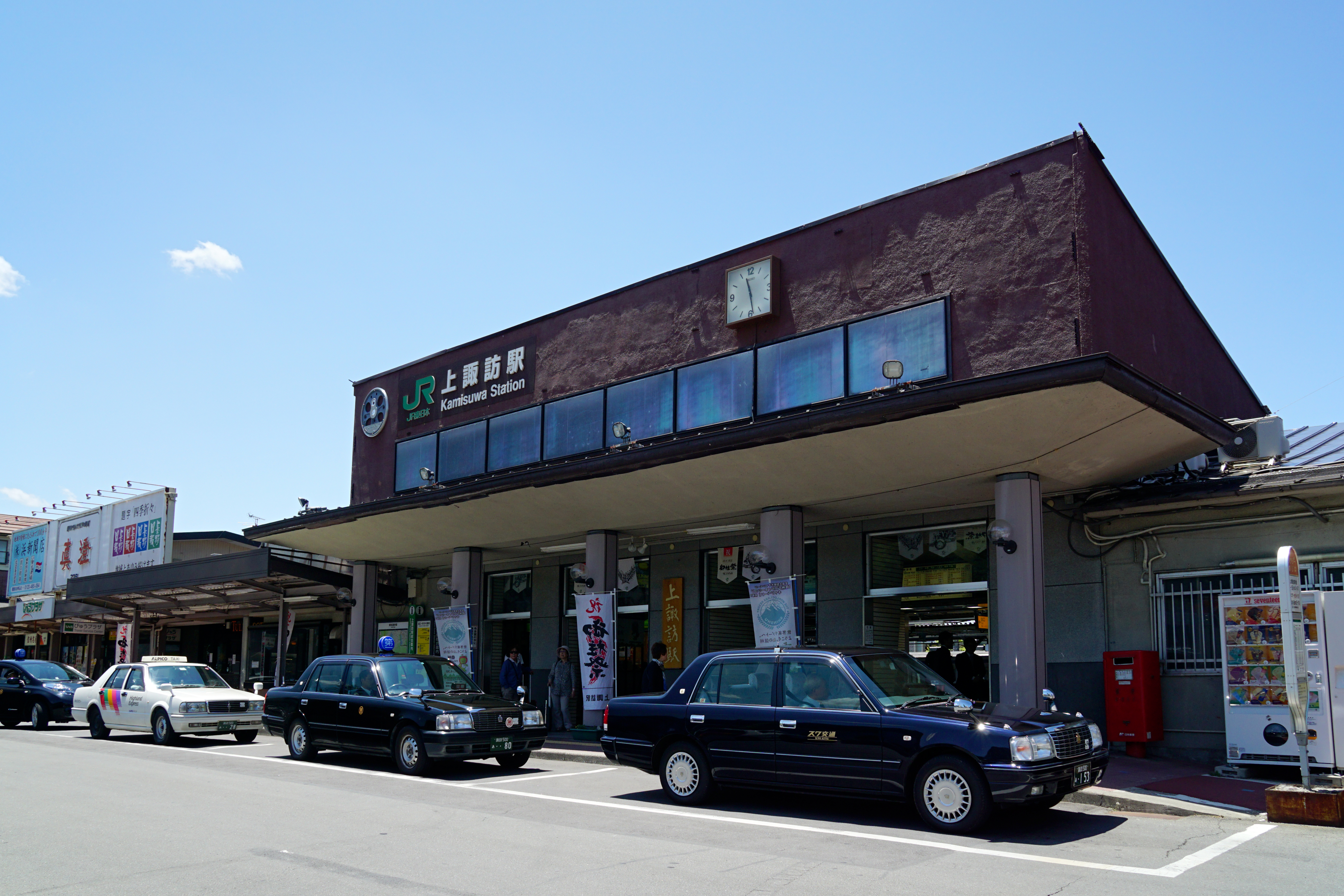 Kami-Suwa Station in Suwa, Nagano prefecture, Japan